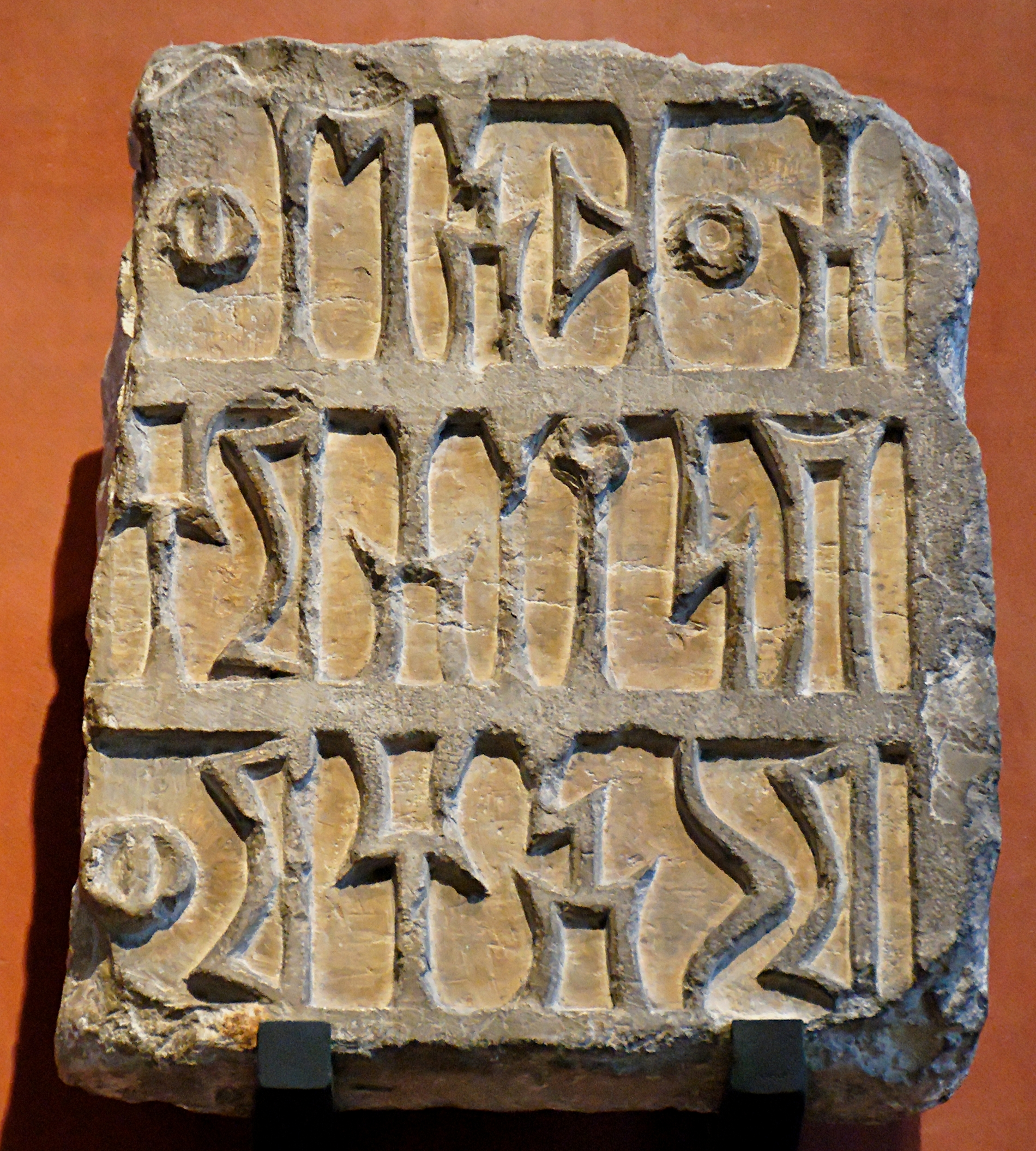 Fragment from a slab with Sabaean dedicatory inscription by a Sa'ad'îl. Limestone, 1st century CE. Found Southern Arabia.